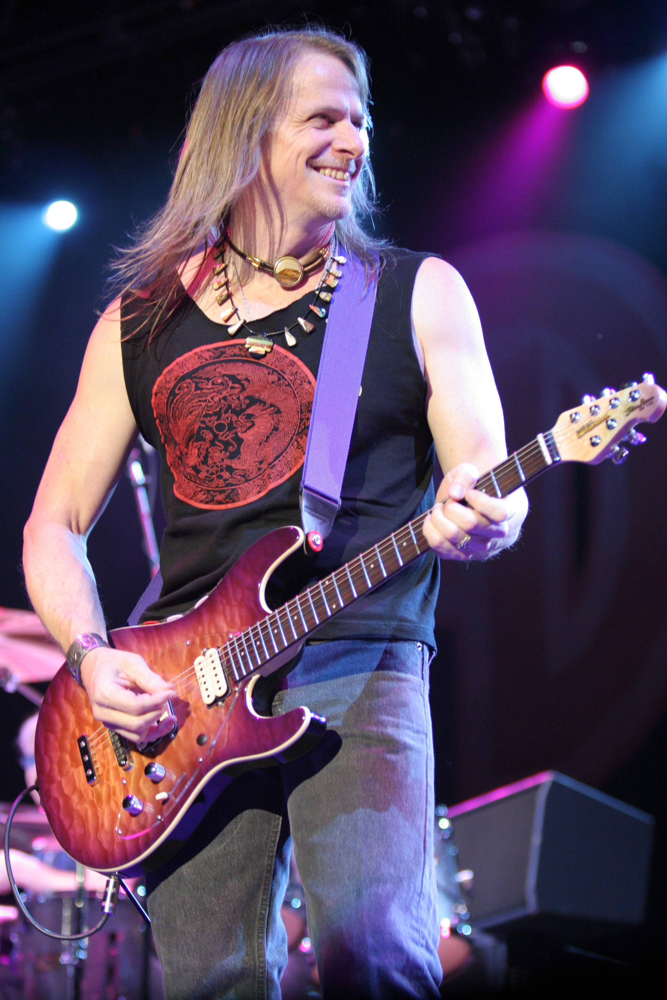 Steve Morse in concert with Deep Purple at the Molson Amphitheatre, Toronto, Ontario, Canada.